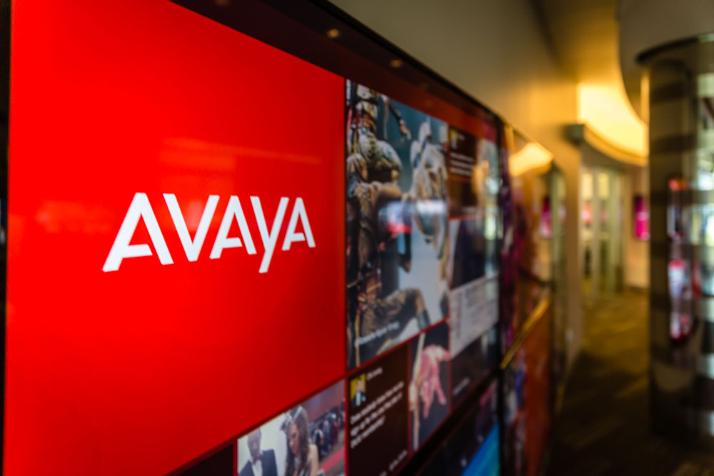 Avaya brand imagery